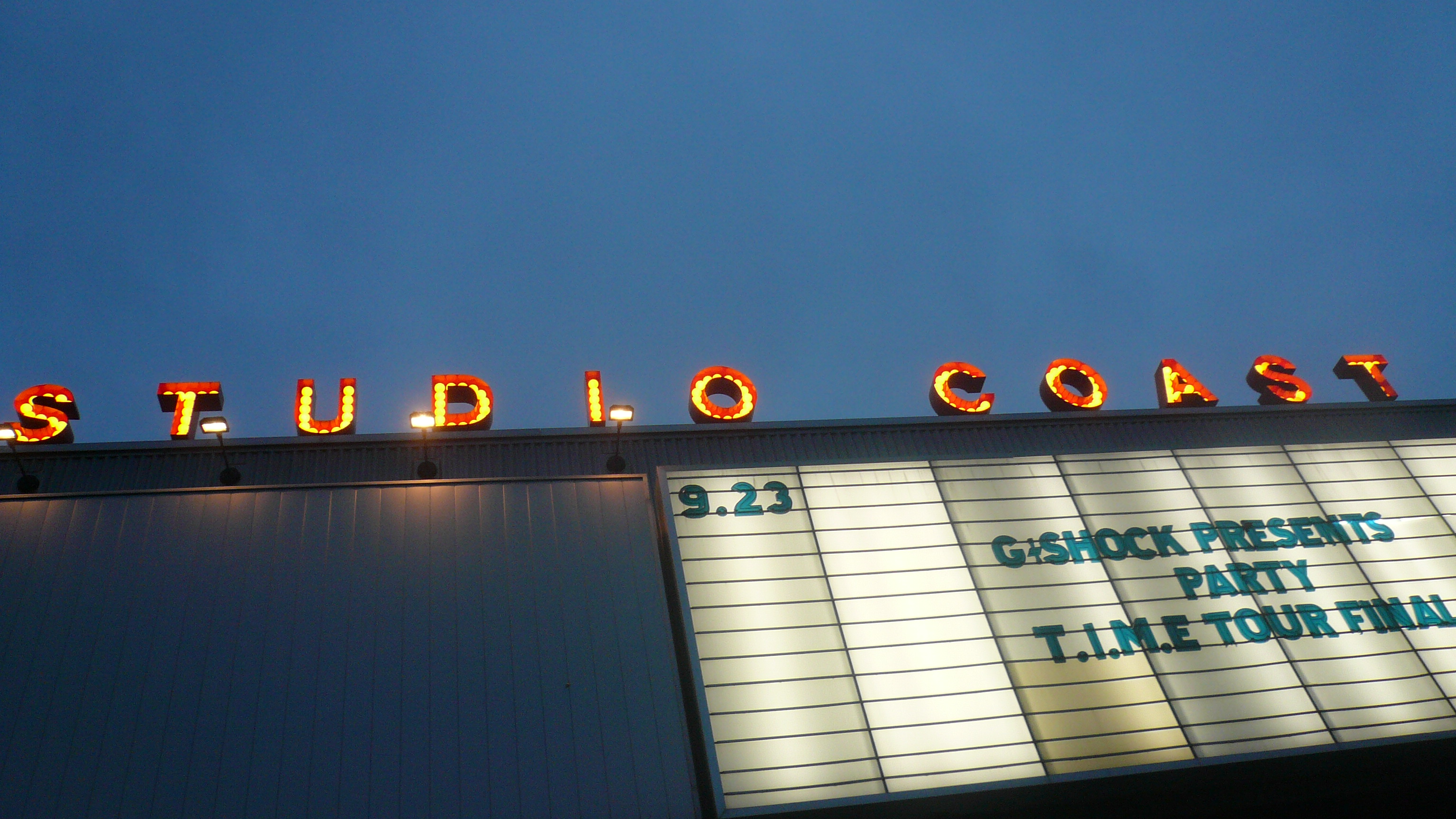 The signboard out in front of Studio Coast in 2007.